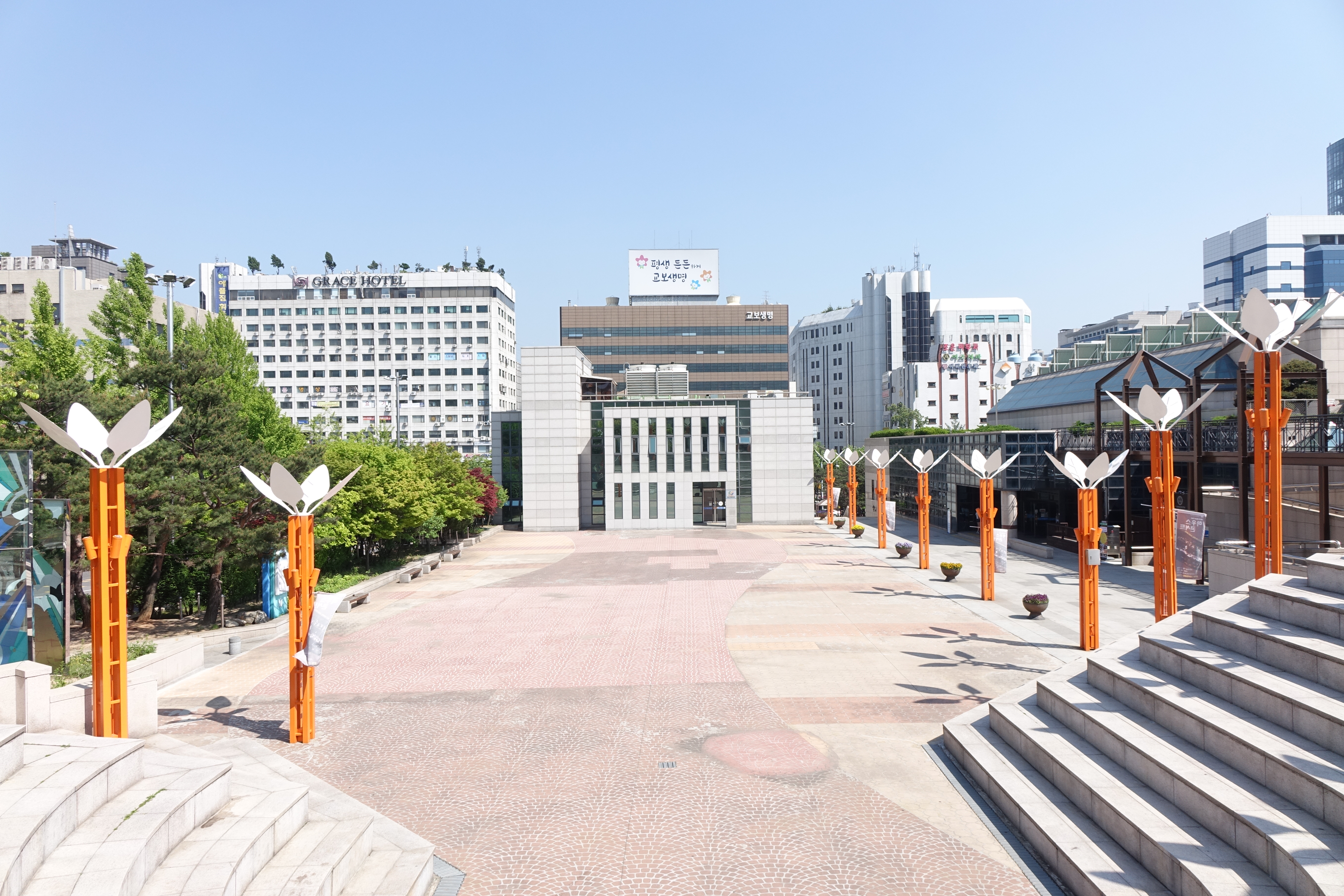 본인은 해당 작품의 저작권자로서, 이 저작물을 'CC0 1.0 보편적 퍼블릭 도메인 기증' 저작권으로 배포합니다. 이에 따라, 본인은 법이 정한 범위 내에서 저작인접권을 포함해 저작권법에 따라 전세계적으로 해당 저작물에 대해 본인이 갖는 일체의 권리를 포기함으로써 저작물을 퍼블릭 도메인으로 공개하였습니다. 본인의 허락을 구하지 않아도 이 저작물을 상업적인 목적을 포함 모든 목적으로 복사, 수정, 배포, 실연하실 수 있습니다. 단 사진에 사람이 있는 경우 사용 전에 해당 인물의 동의가 필요합니다. 2015년 6월 8일. 최광모.